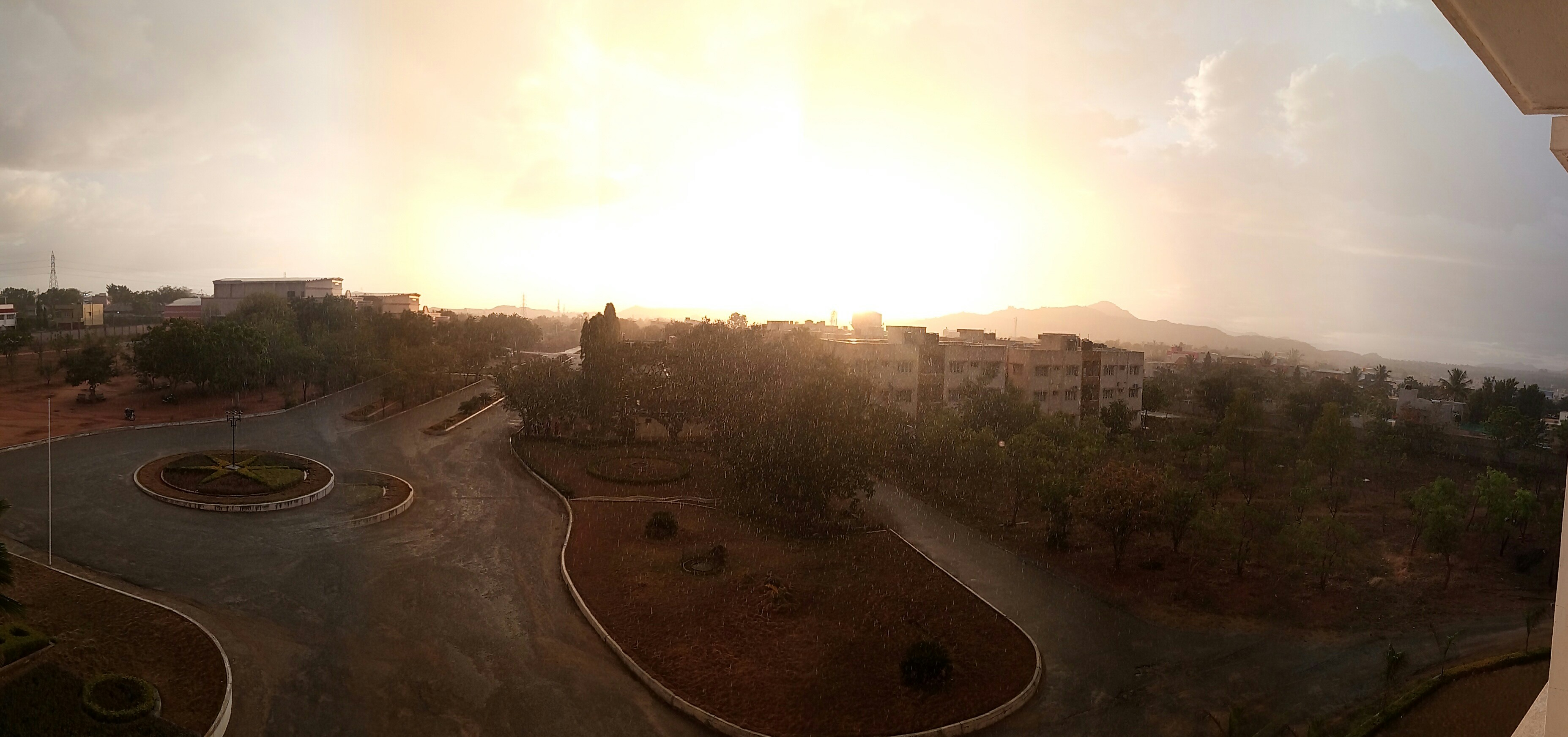 Sunset at chitradurga